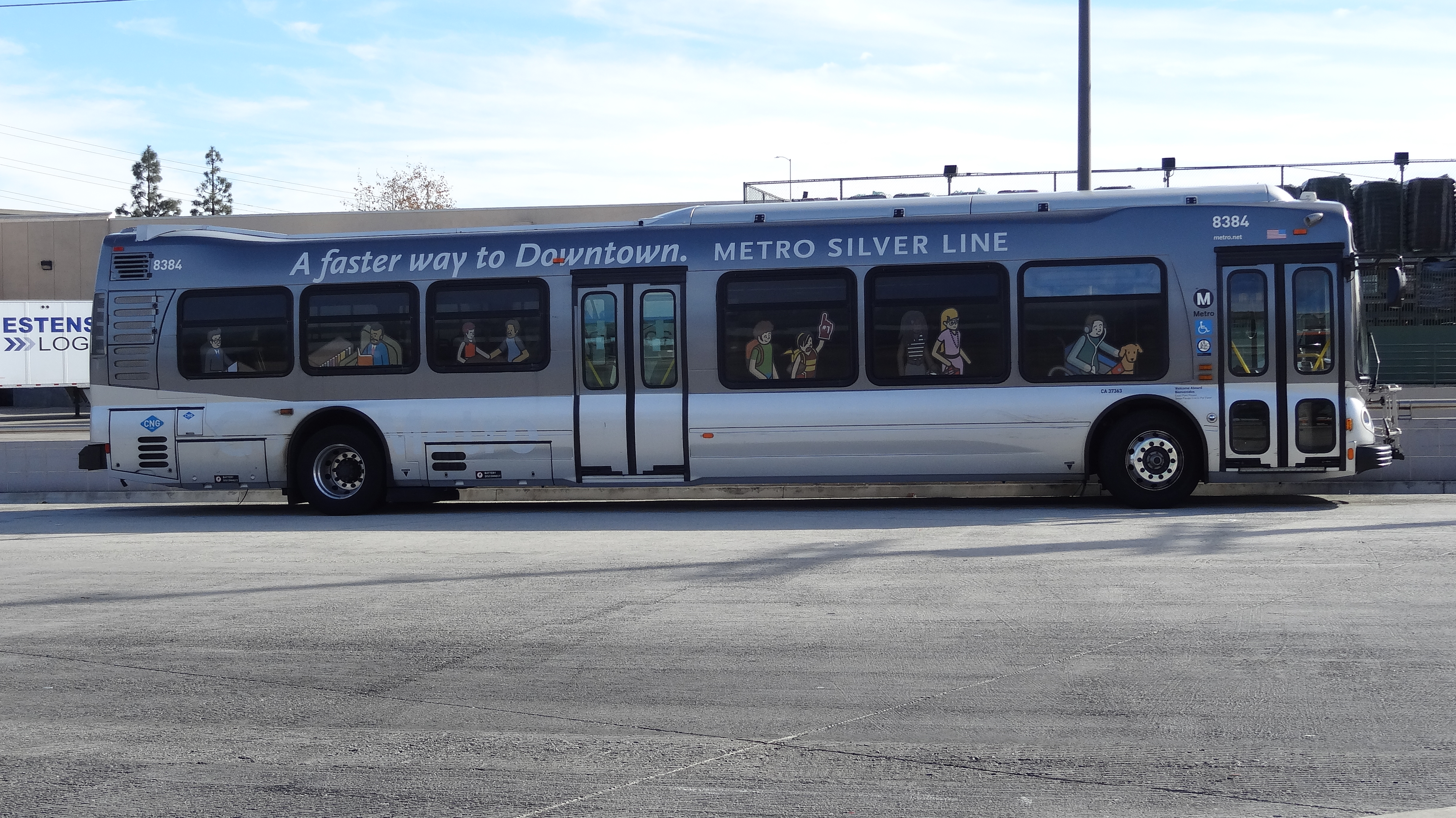 Metro Silver Line 45 foot NABI Compo bus